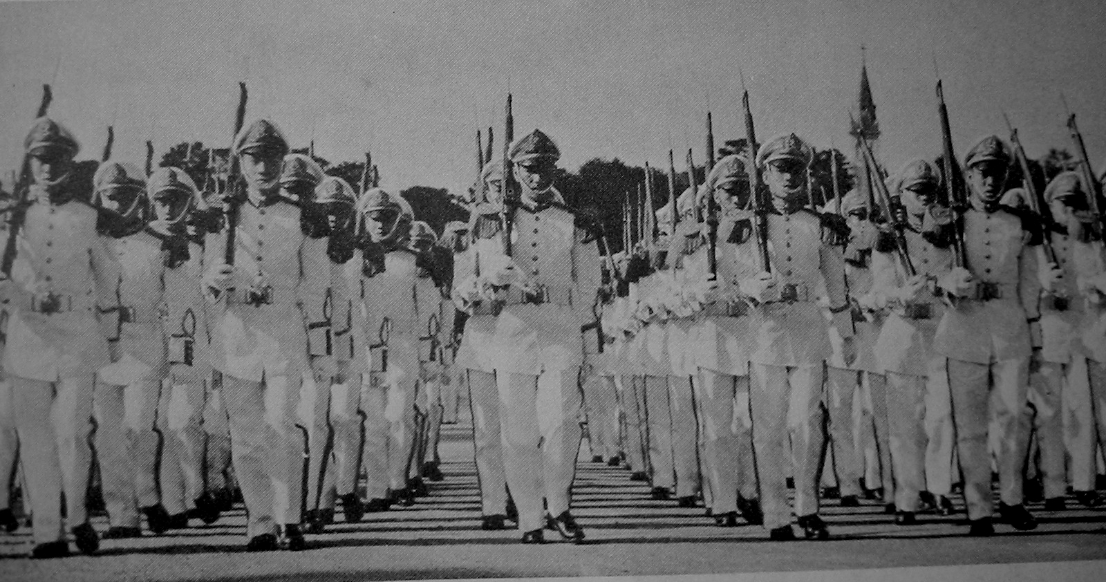 Da-lat National Military Academy, Republic of Vietnam